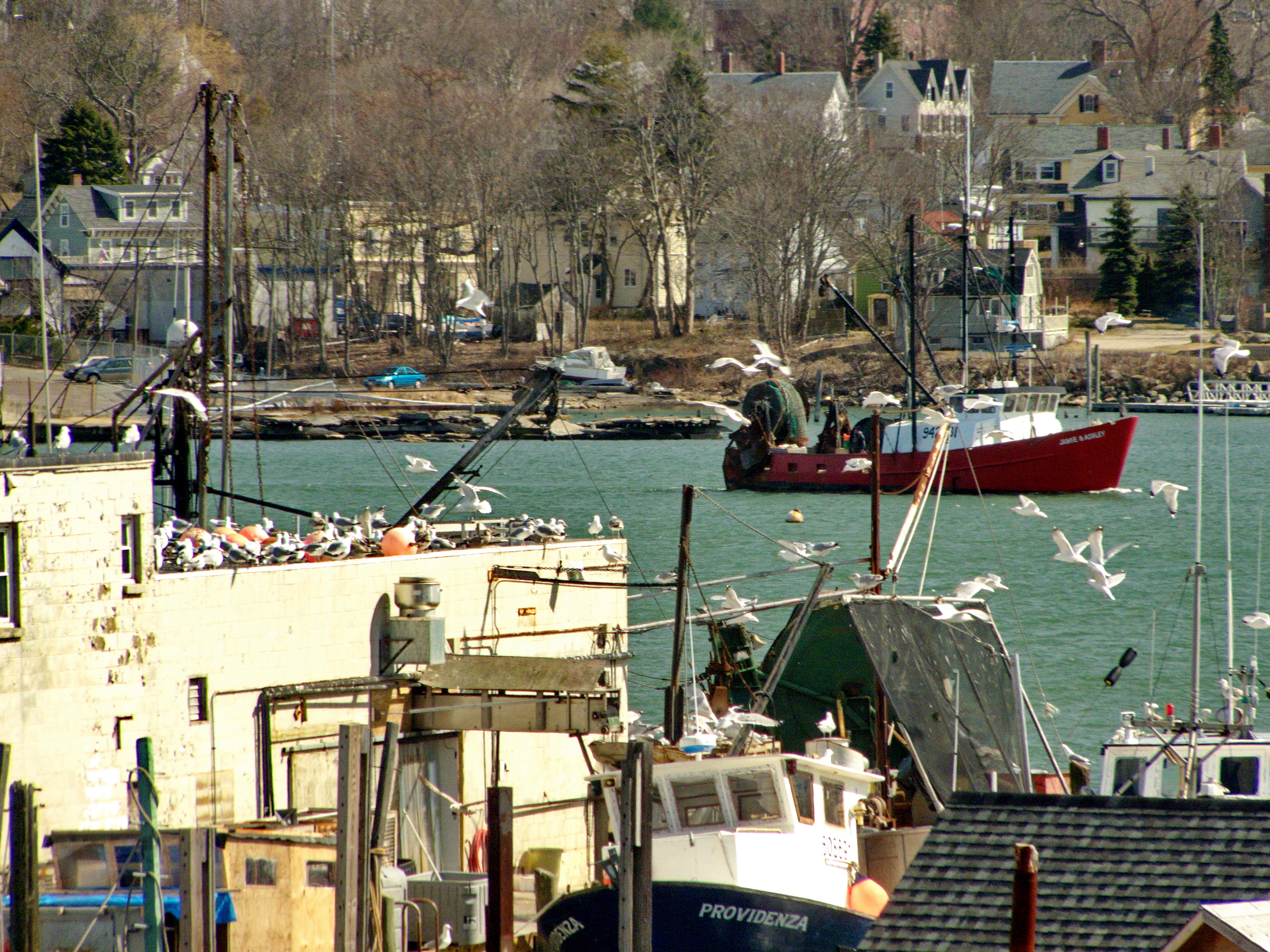 Gloucester Harbor, Massachusetts